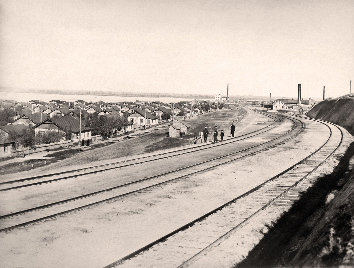 View Kamianske, Lower Colony. (now Dniprodzerzhynsk)